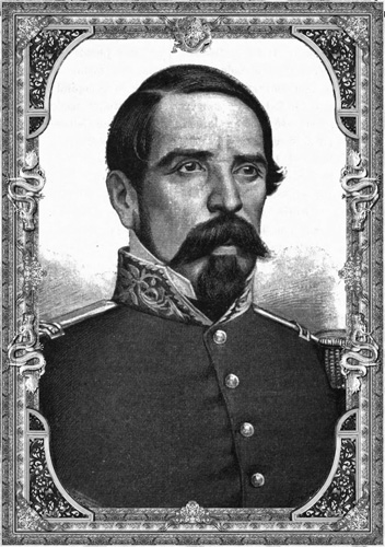 Self-portrait of Manuel María Lombardini de la Torre, Lithograph (1870-1907).